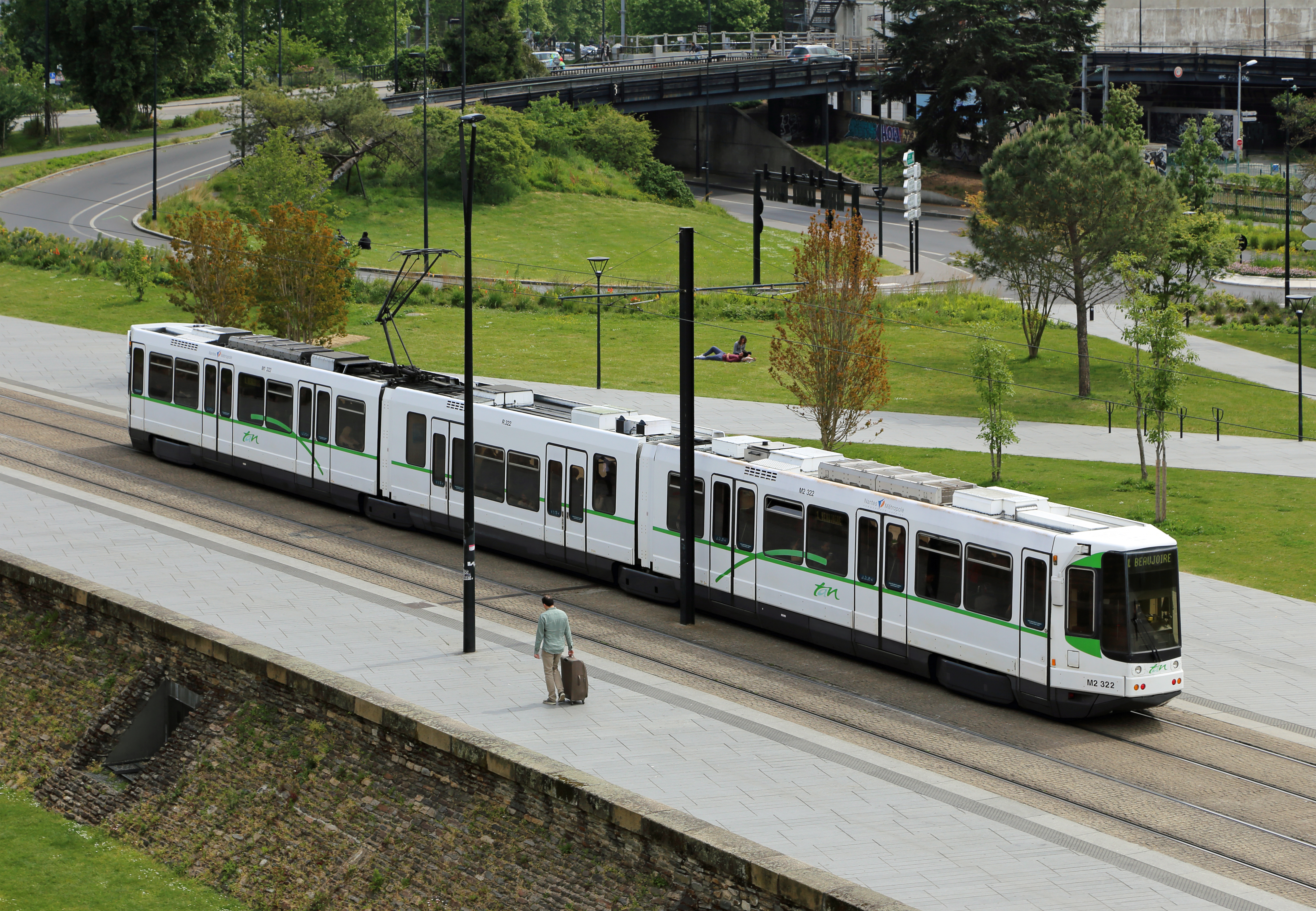 Nantes (Loire-Atlantique department, France): tramcar #322, type Alsthom TFS